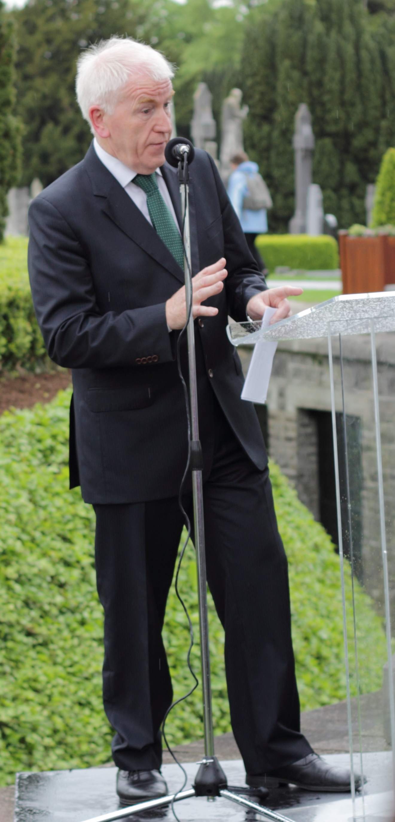 Jimmy Deenihan at the unveilling of the commemorative stone to mark the bi-centenary of the birth of Thomas Davis at Glasnevin Cemetery.